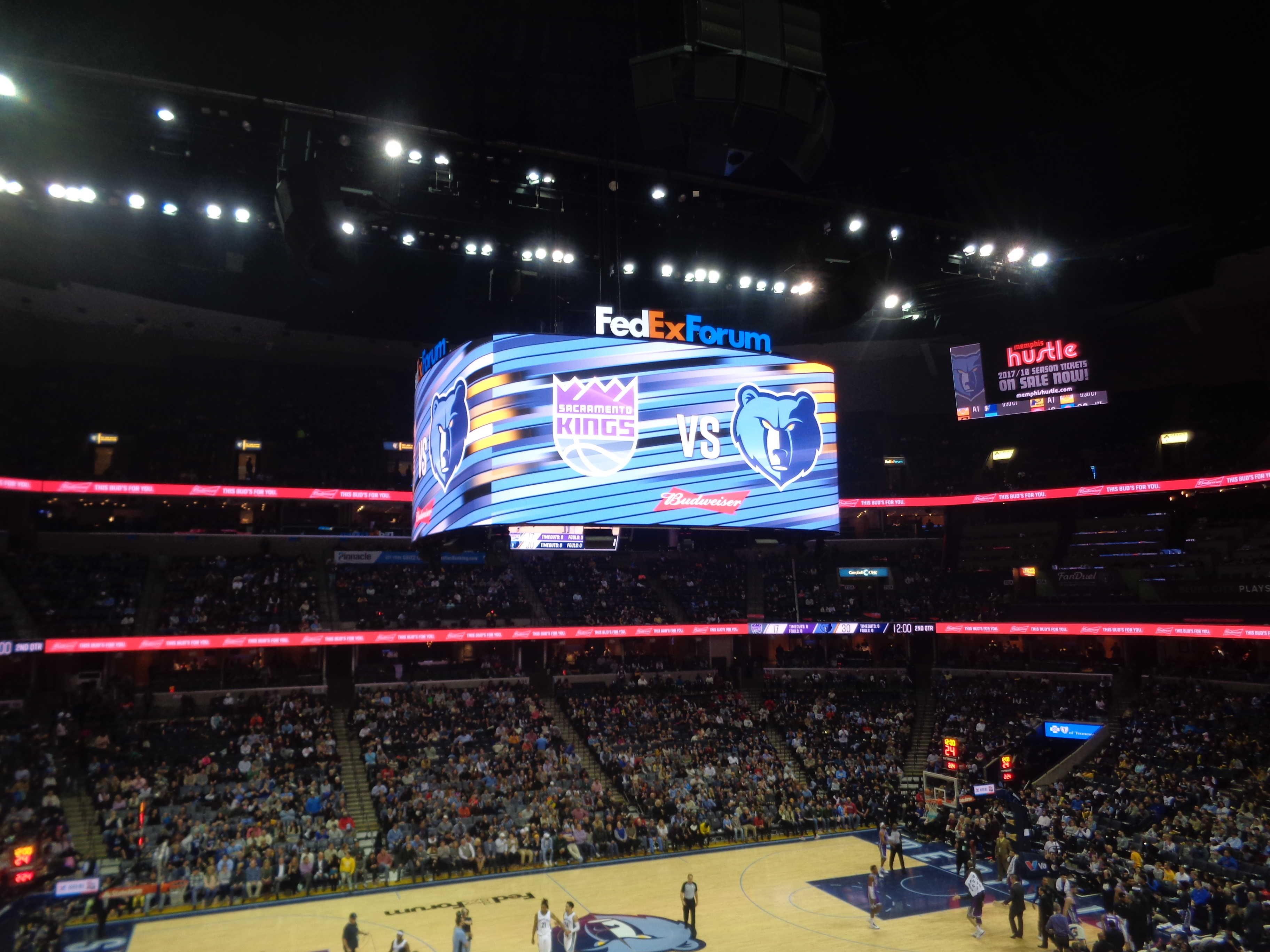 FedexForum Interior with new scoreboard